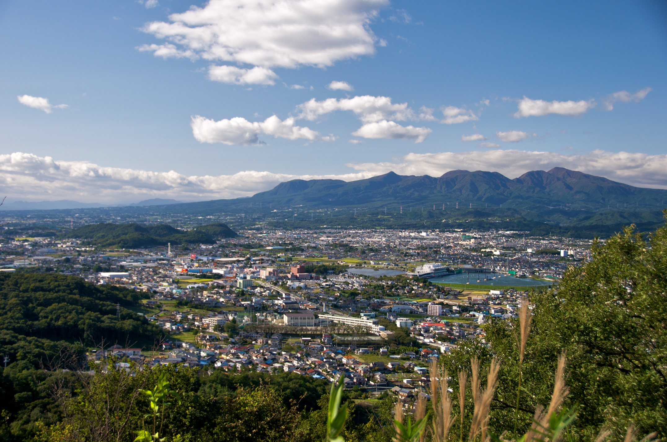 The southeast side of Mount Akagi and the outskirts of Kiryu and Midori City, from Mount Chausu